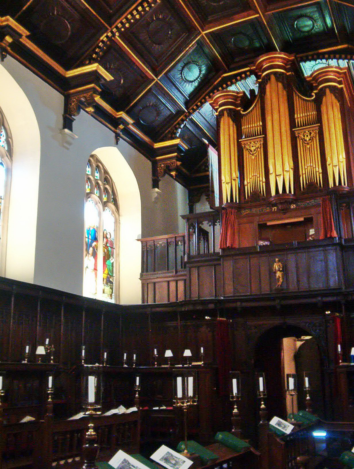 Chapel of Peterhouse, Cambridge, interior. Photo by Azeira, August 2004.